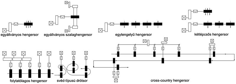 Examples onto the layout of rolling mills